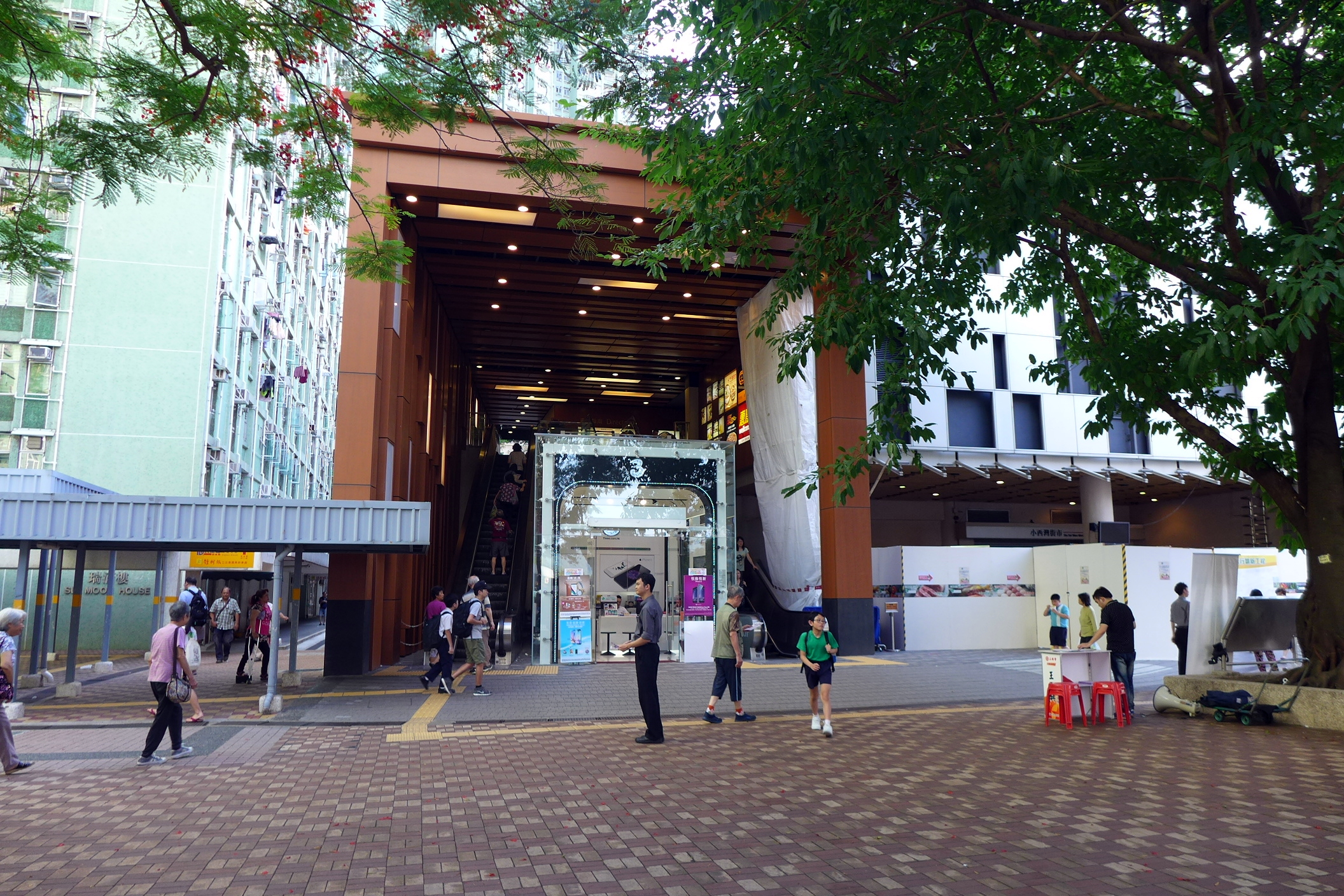 Siu Sai Wan Plaza New Entrance